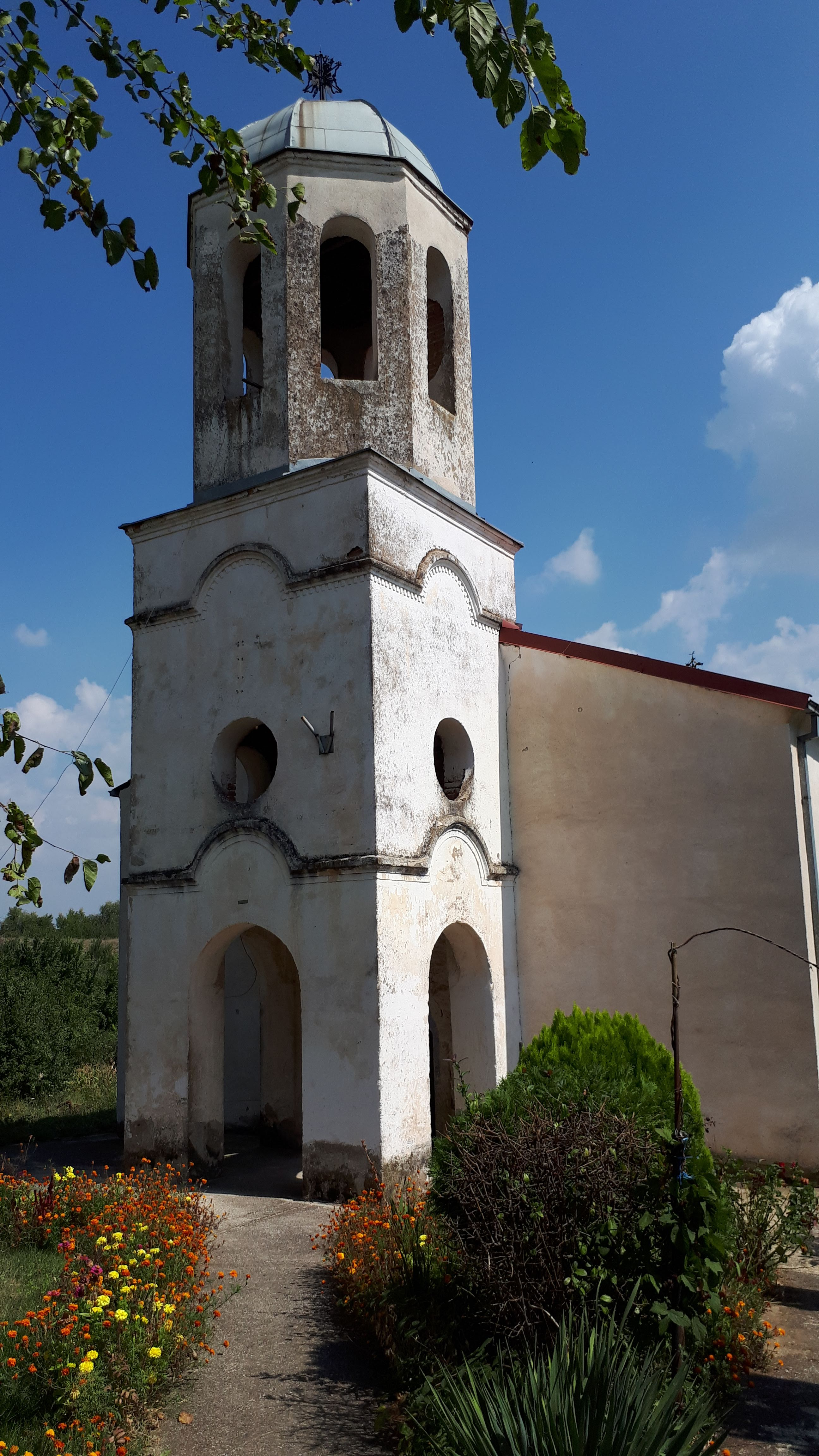 View of the St. Demetrius Church in the village Barešani